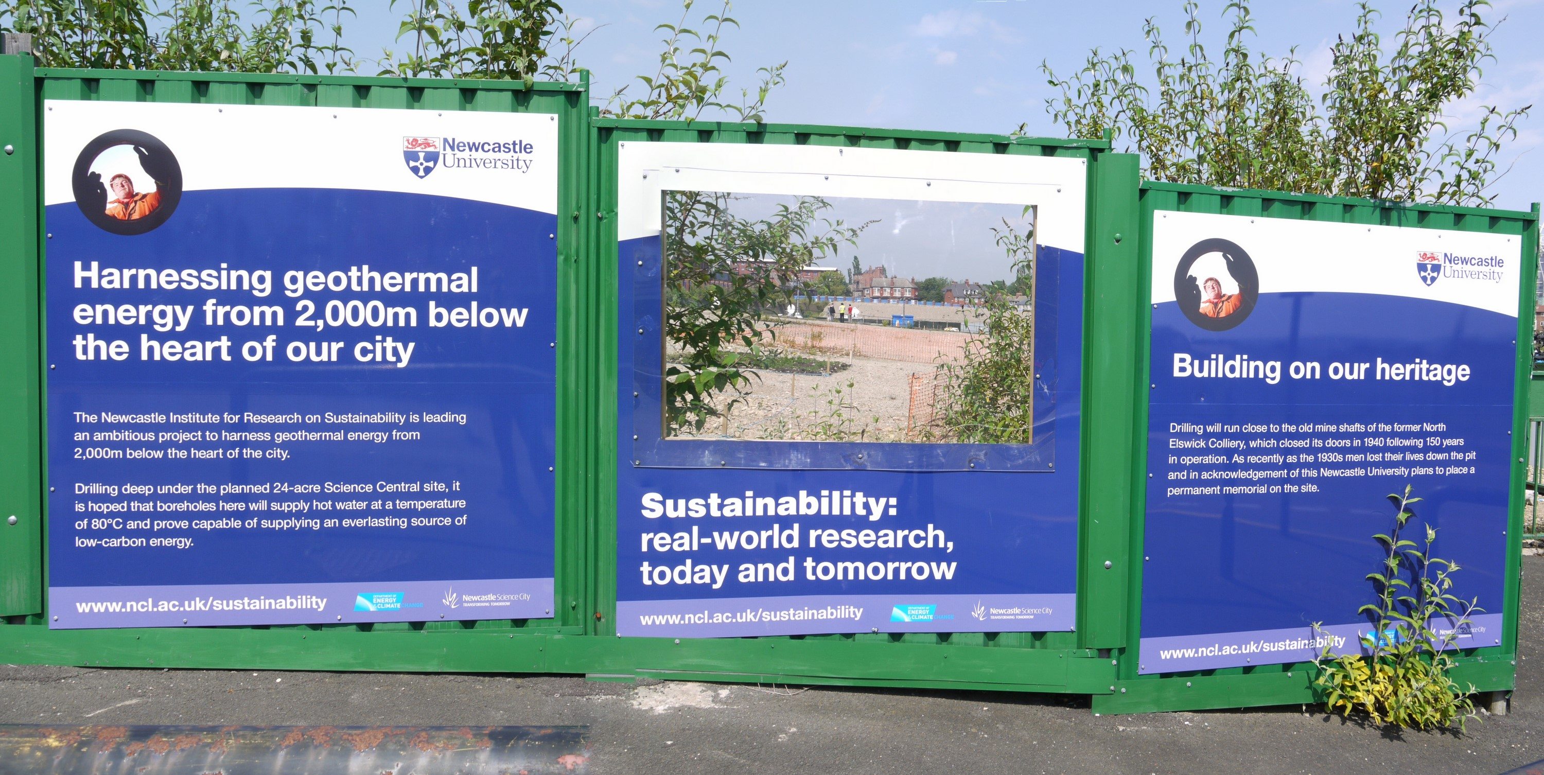 Most boring place in Newcastle!